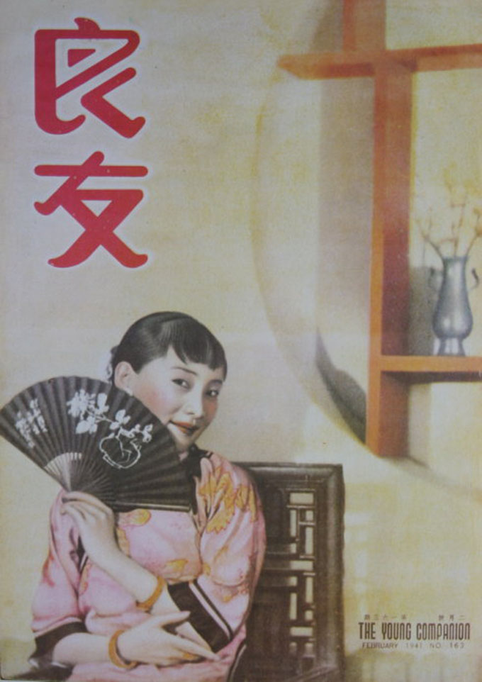 Cover of Liangyou magazine, #160.